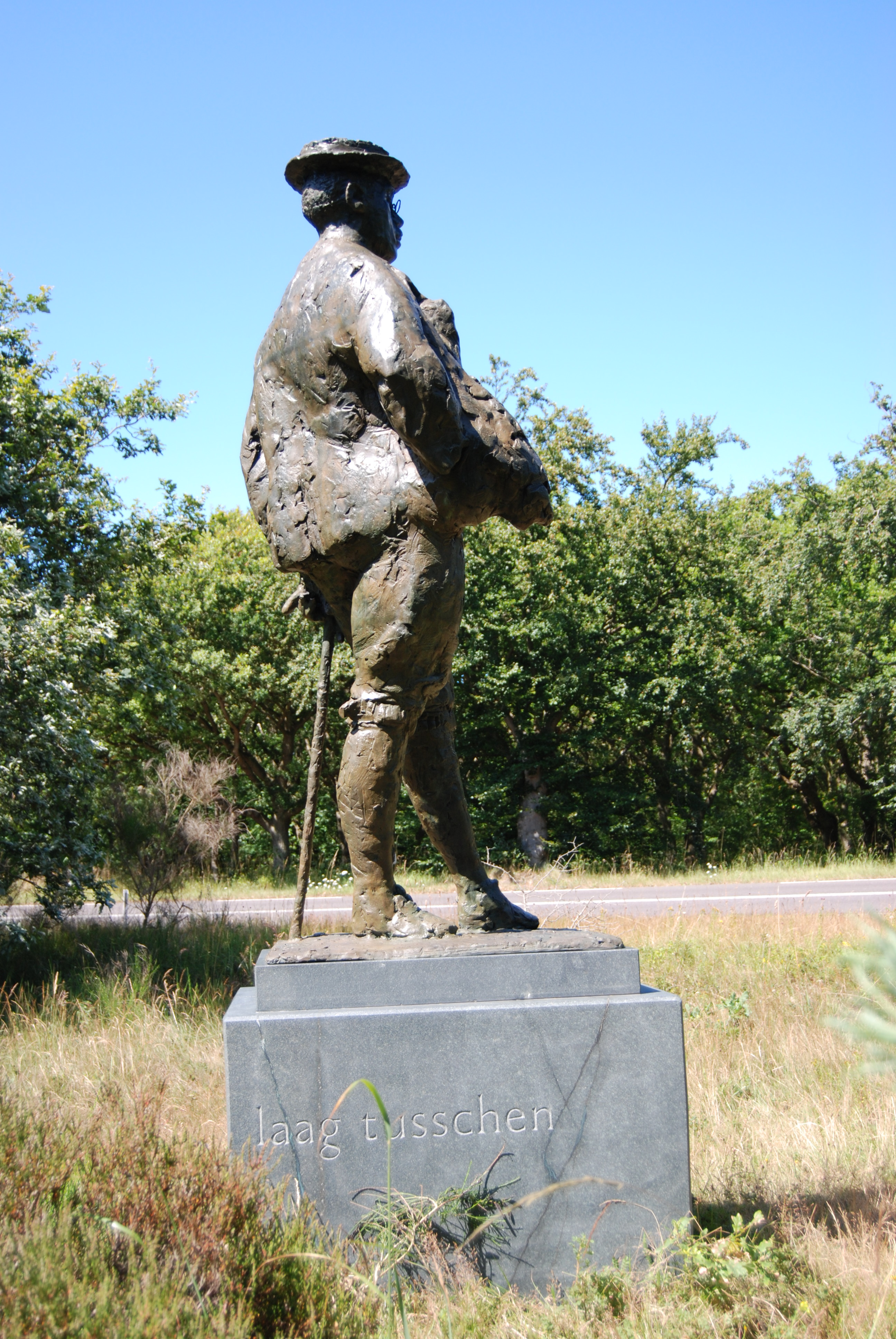 The Dutch poet Herman Gorter by the sculptor Hans Bayens. Location: Bergen aan Zee, the Netherlands